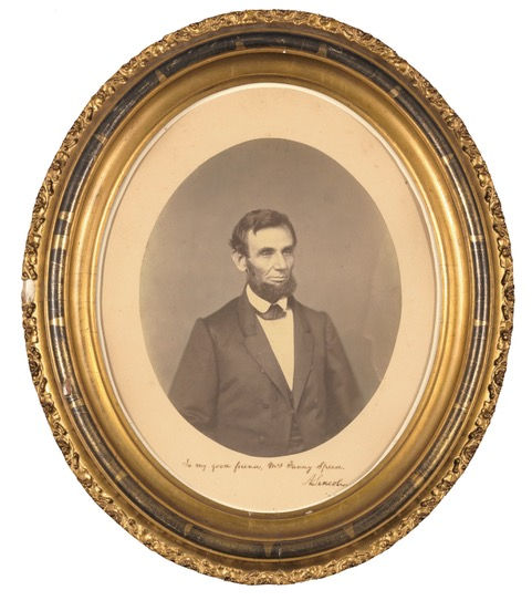 LINCOLN, ABRAHAM. Oval Portrait Photograph Inscribed and Signed by Lincoln to Fanny Speed, wife of his closest friend, Joshua Speed [taken between March 1 and 30 June 1861, inscribed and presented by Lincoln to Mrs. Speed at the White House on Thanksgiving Day, 28 November 1861]. Salt print photograph, oval (11½ x 9½ in., with mount: 16 3/16 x 13¼ in). From the collection of Stephan Loewentheil.